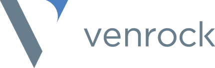 The logo for the US venture firm, Venrock.